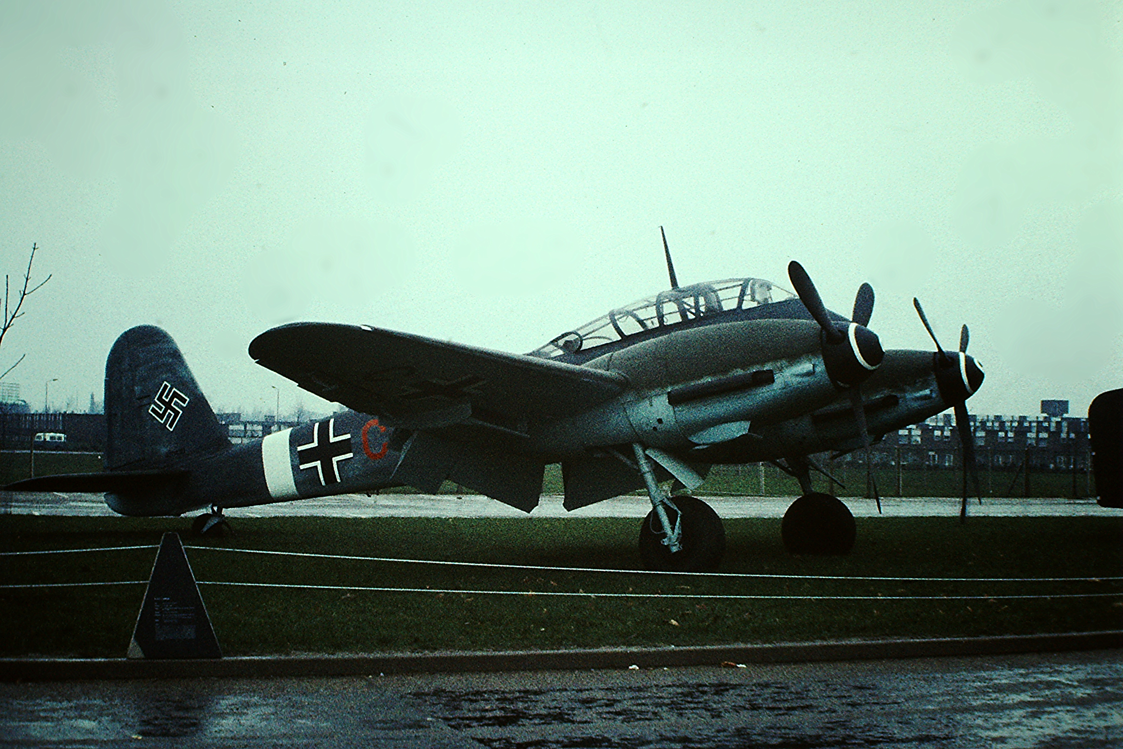 Messerschmitt Me 410A-1/U2 Hornisse of ZG6 'Horst Wessel' at the RAF Museum, Hendon, 05/76. Scanned slide taken with a Kowa SET.